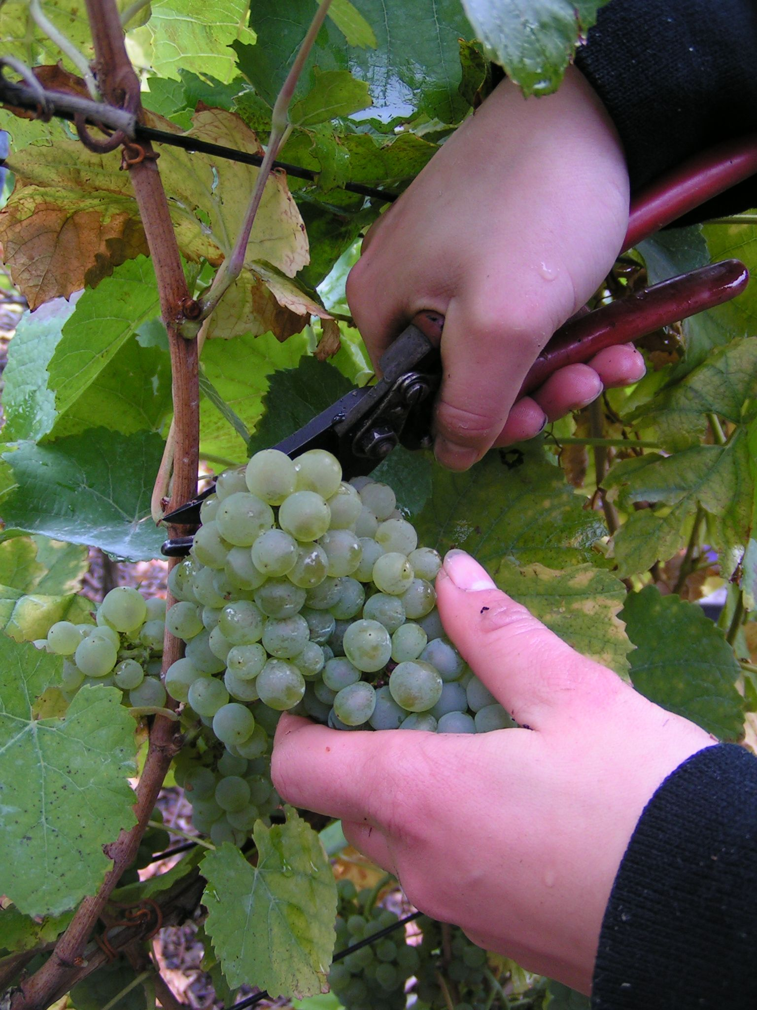 Grape gathering, Coswig in Saxony, Germany.